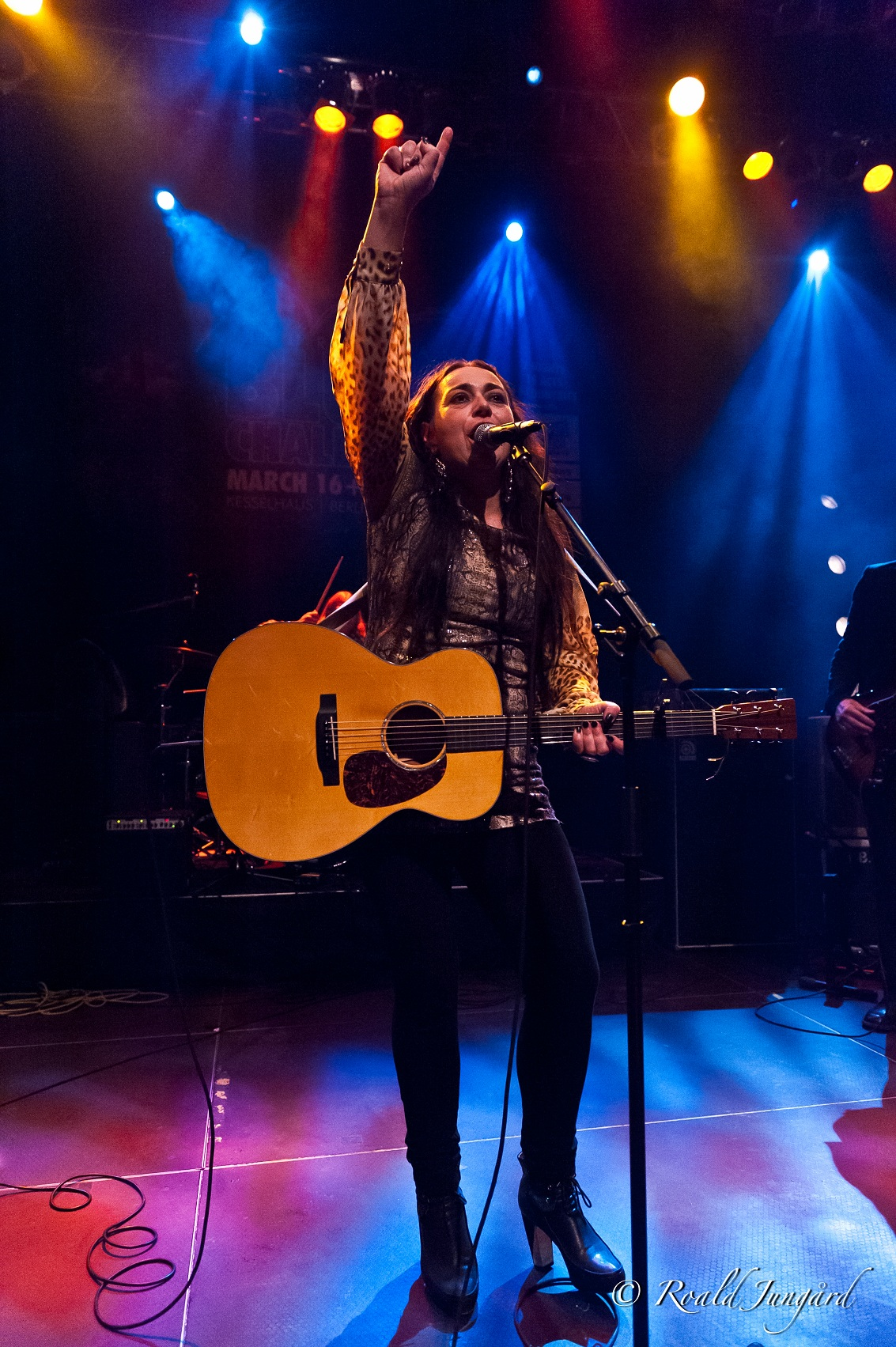 Rita Engedalen, Berlin 2012